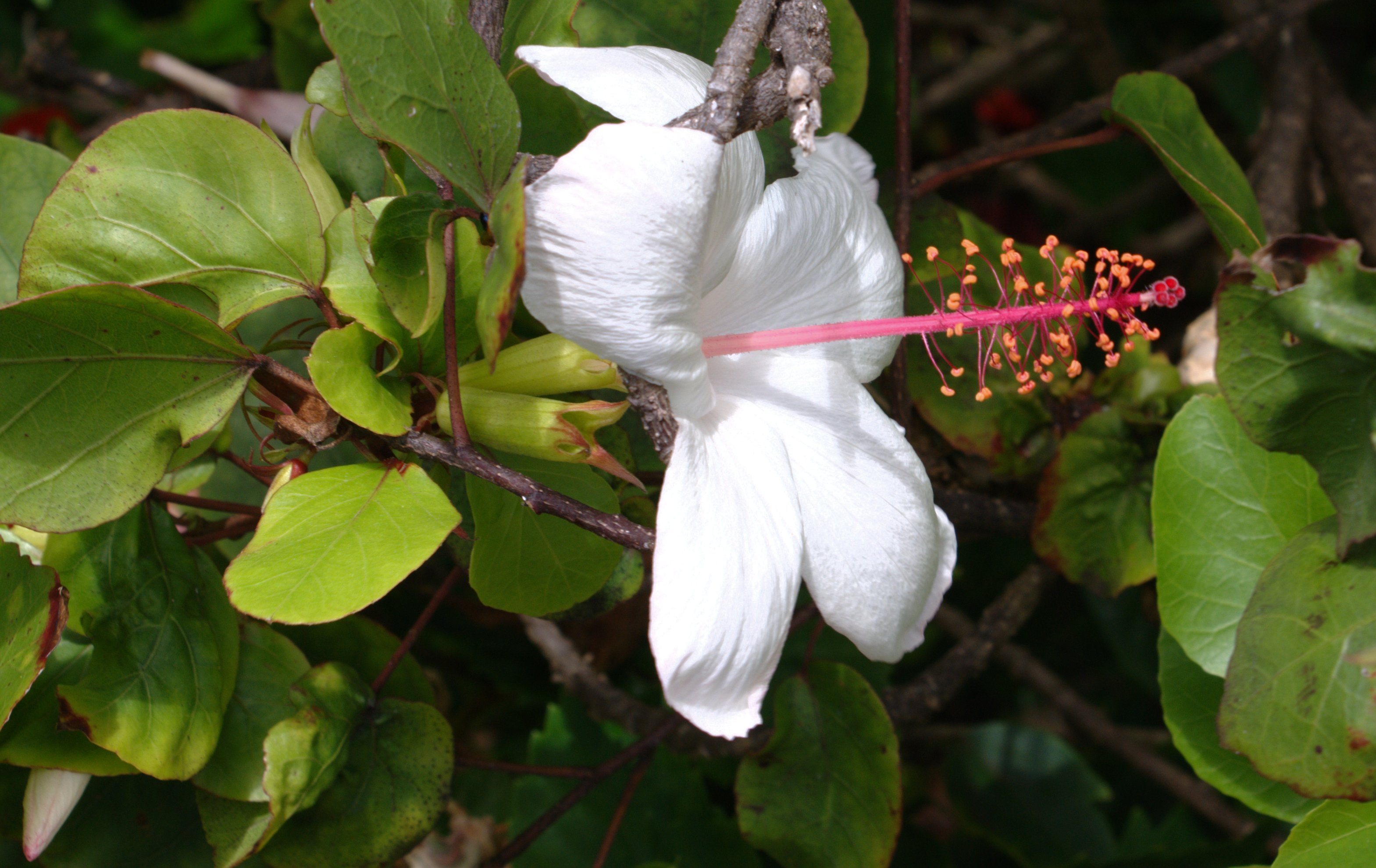 Hibiscus arnottianus subsp. arnottianus. I really like how this flower was growing through a nearby branch. There's so much free energy floating around the area that life just explodes and jams full every crevice it can.